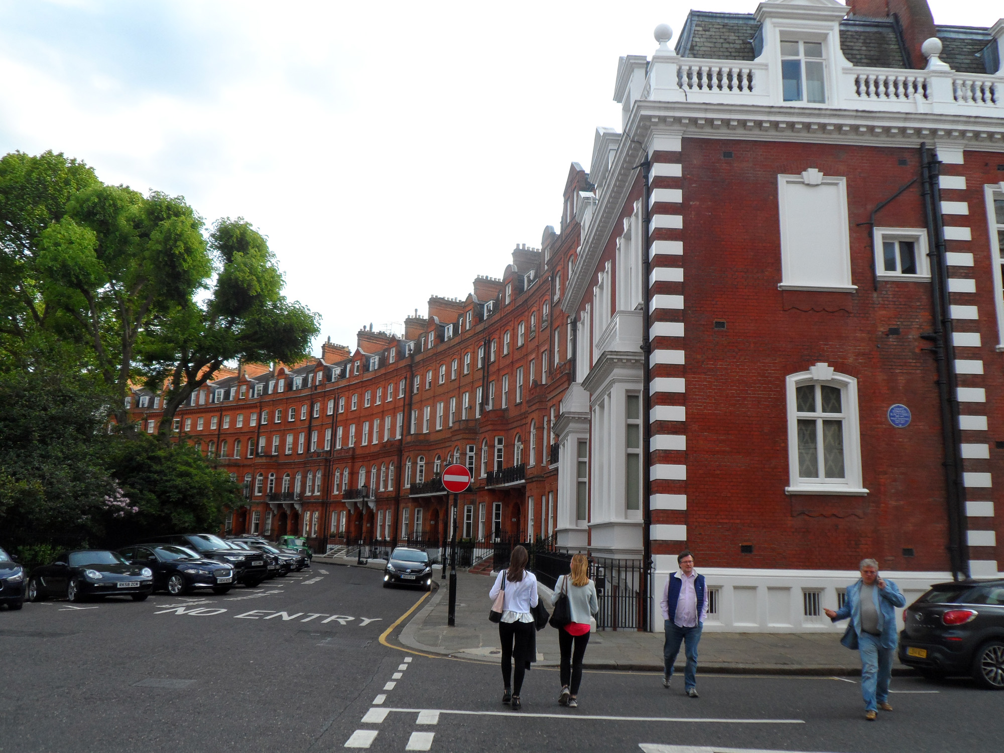 COUNT EDWARD RACZYŃSKI 1891-1993 Polish Statesman Lived here 1967-1993